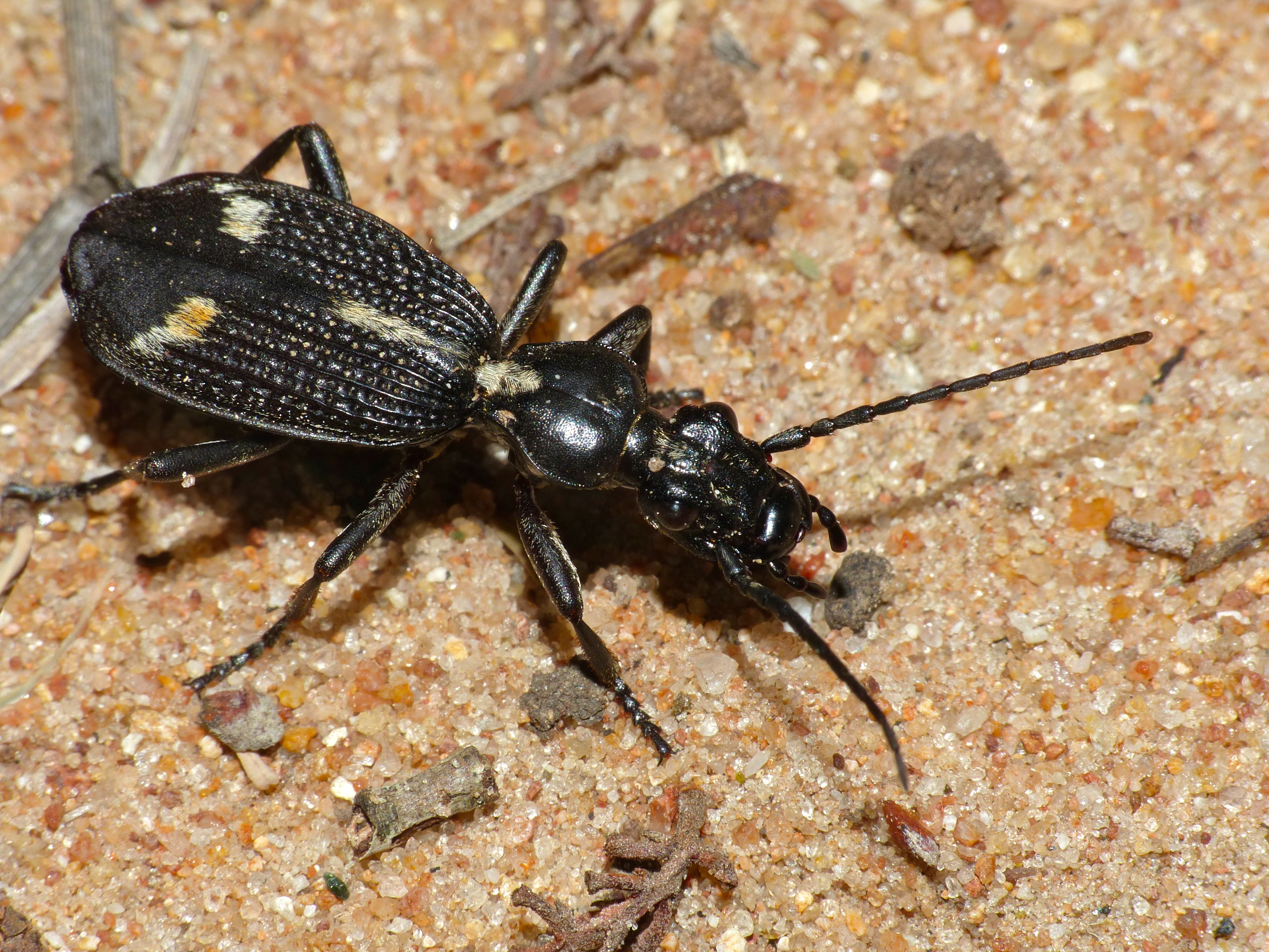 Tamboti Tented Camp, Kruger NP, SOUTH AFRICA